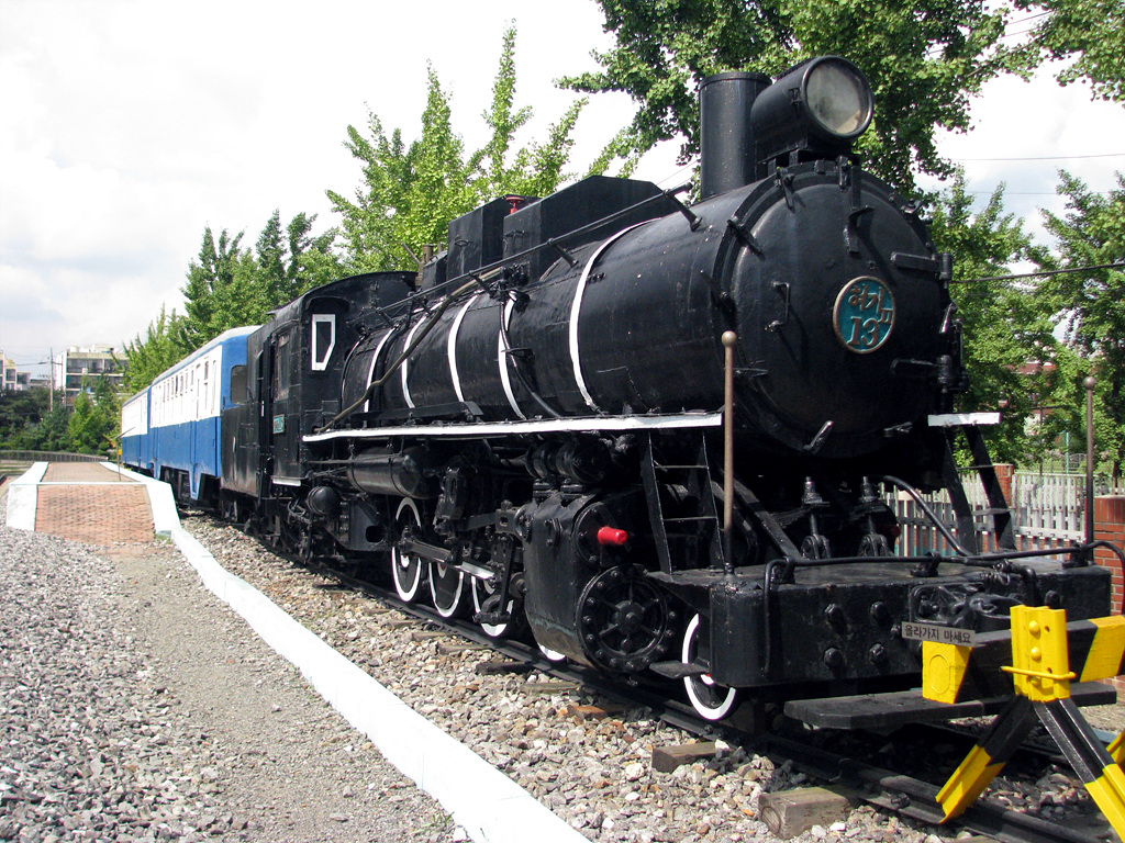 Korea Railroad Stream Locomotive type Hyeogi 11 13